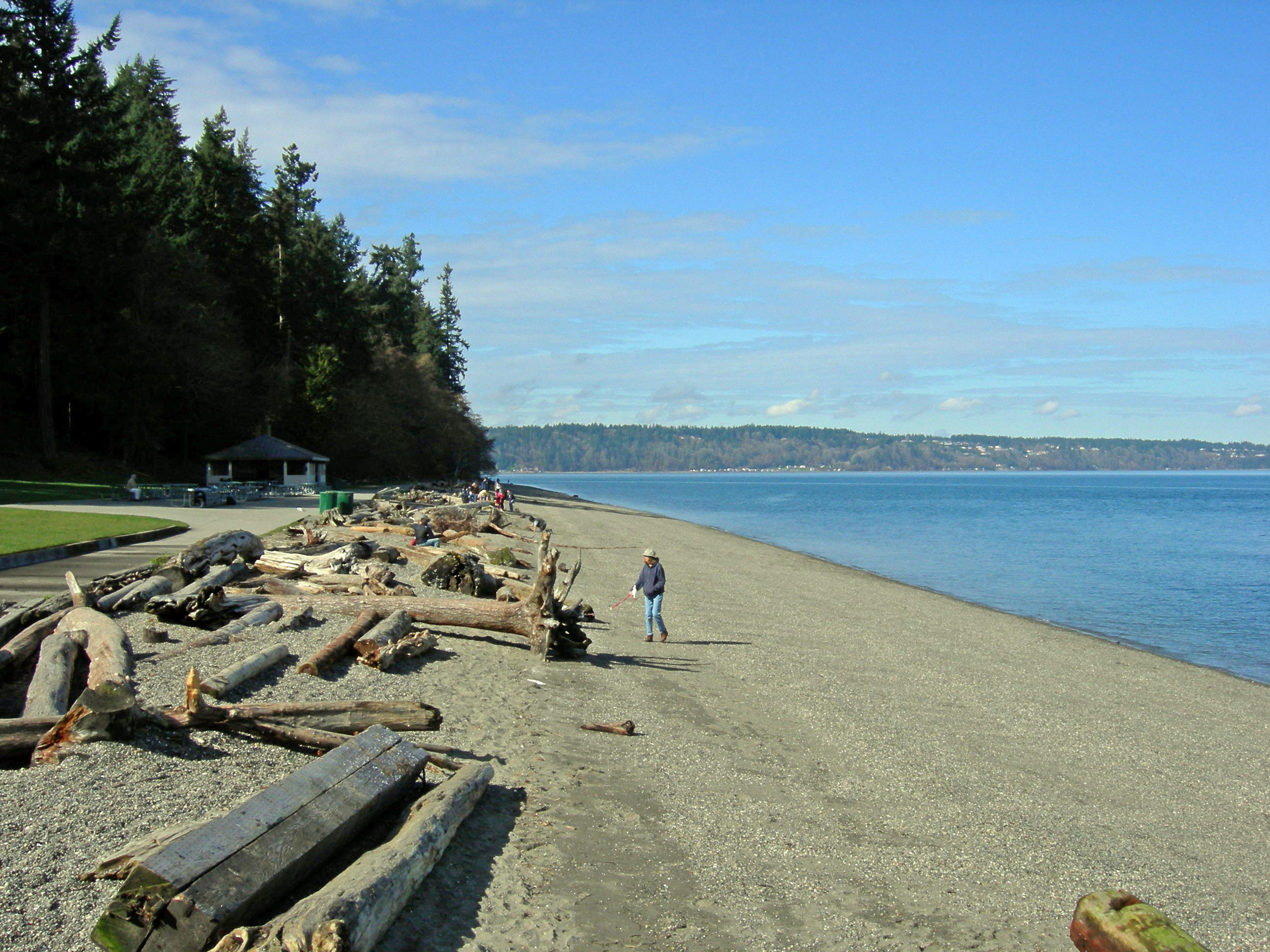 Shore view, Point Defiance Park, Tacoma, Washington.